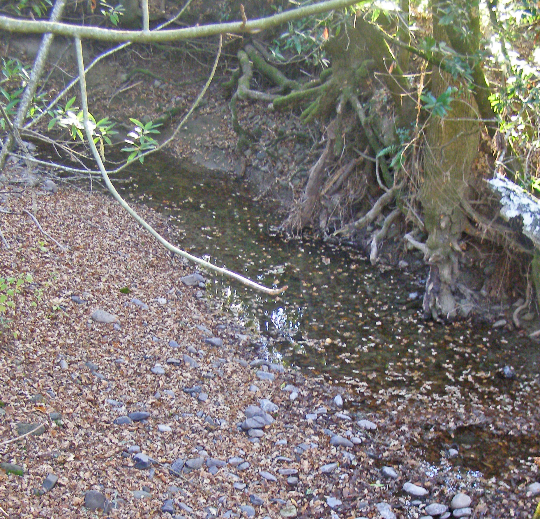 Yulupa Creek at approx. 1930 Warm Springs Rd, Glen Ellen, Sonoma County, California